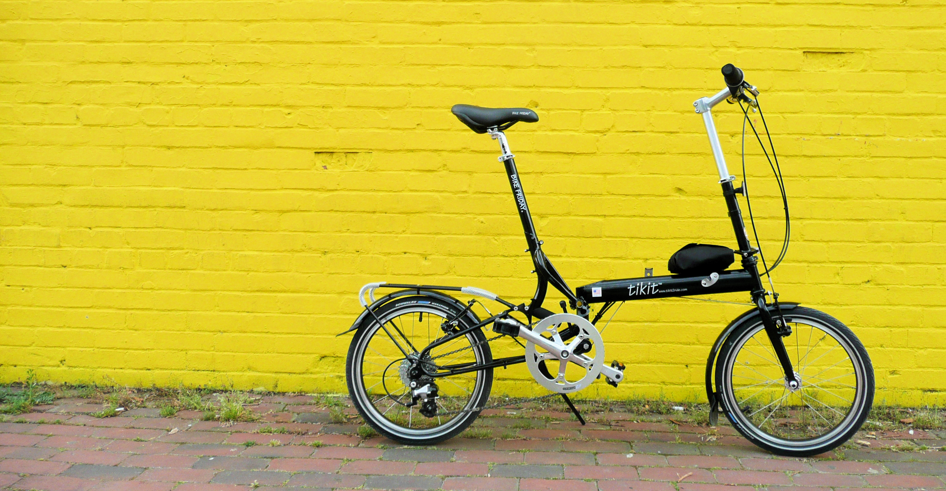 Black Size-Large 2007 Hyperfold Tikit, outside Big Wheel Bikes in Alexandria, Virginia